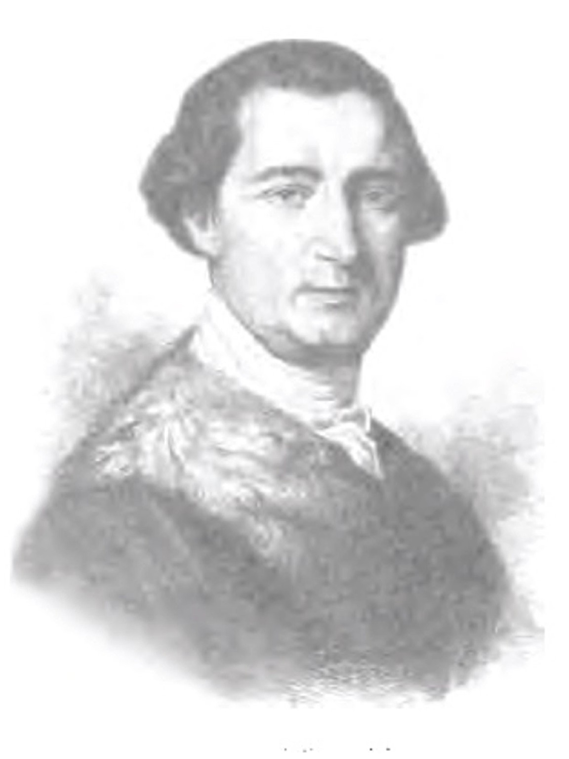 Portrait of John Penn, last colonial governor of Pennsylvania